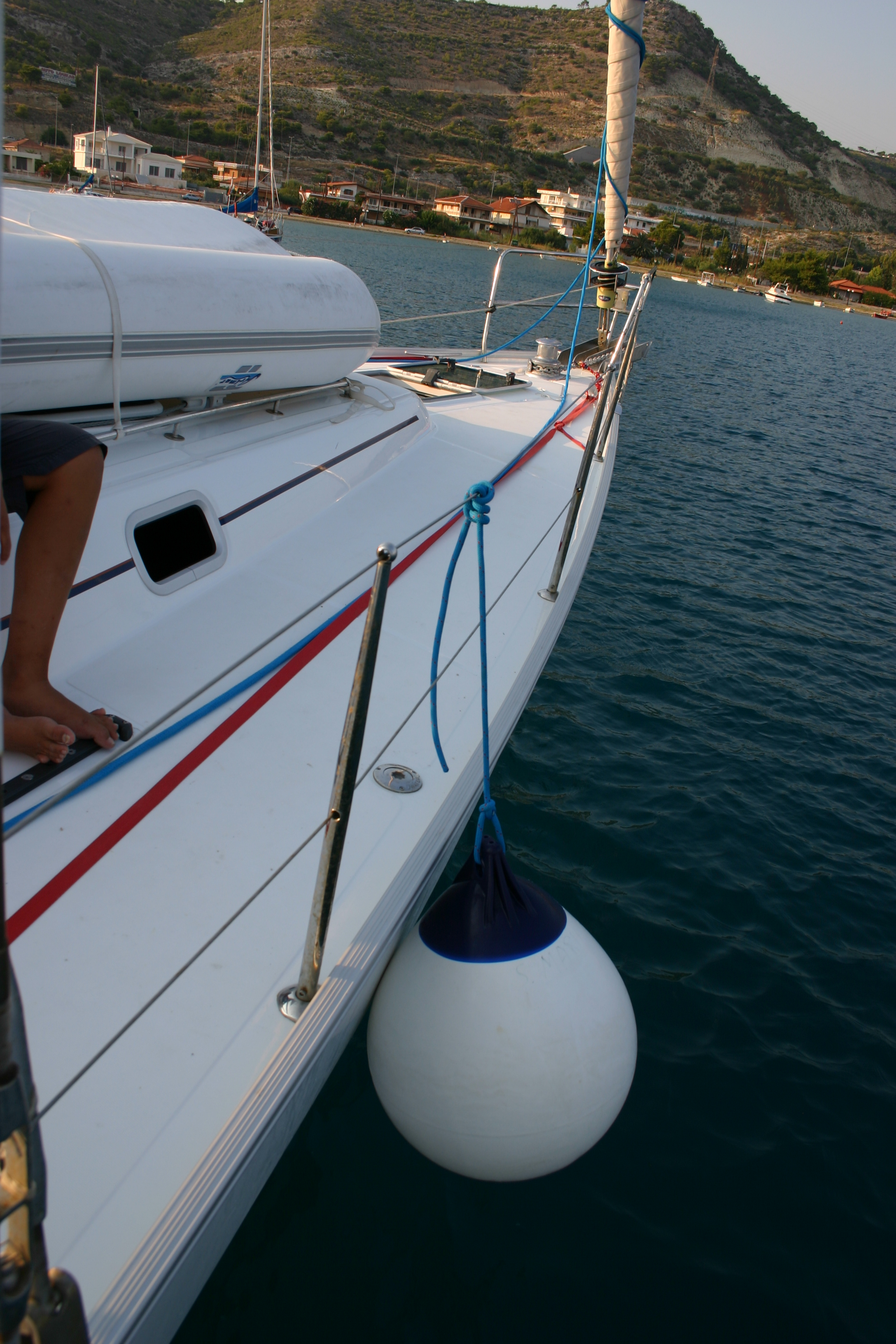 Fender protecting the side of a sailing vessel as it heads into port.